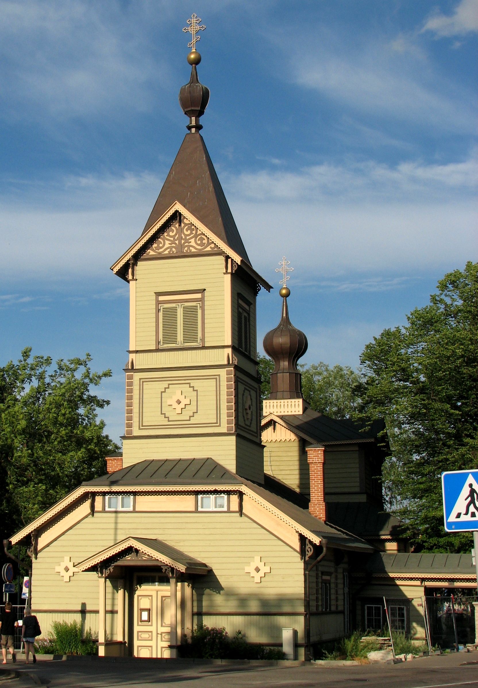 A church of Estonian Apostolic Orthodox Church in Tallinn